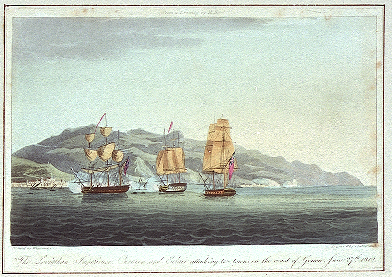 Attack on convoy of eighteen French merchant ships at Laigrelia The Leviathan, Imperieuse, Curacoa, and Eclair attacking two towns on the coast of Genoa, June 27th. 1812. From a Drawing by Mr. Hood. Painted by T. Whitcombe. Engraved by T. Sutherland. [n.d. c.1812.] Aquatint. 159 x 241mm. 6¼ x 9½". HMS Leviathan (1790), HMS Imperieuse (1793), HMS Curacoa (1809) and HMS Eclair (1807); on June 27th, 1812, the four British ships attacked an 18-strong French convoy at Laigueglia and Alassio in Liguria, northern Italy.